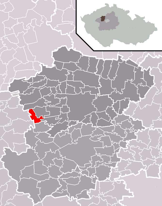 Location of Drnek municipality within Kladno District and administrative area of Slaný as a Municipality with Extended Competence.